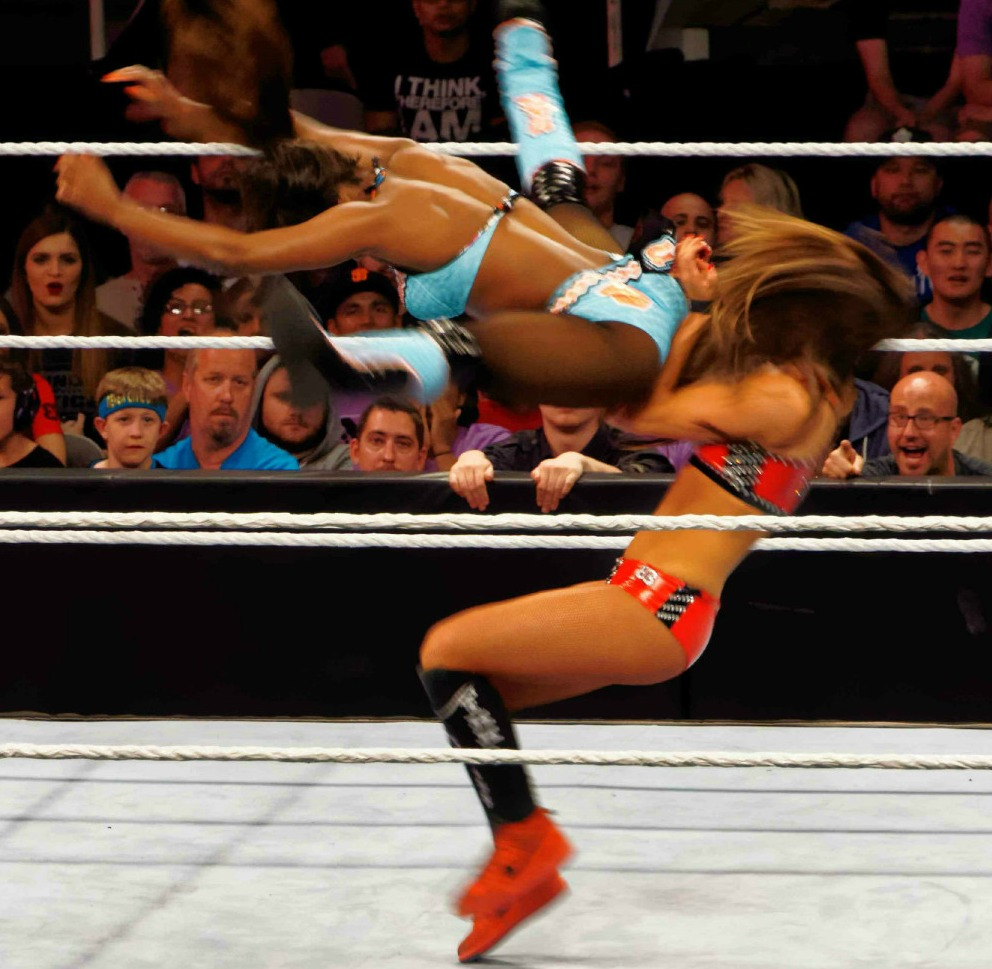 Naomi applying the rear view on Nikki Bella in March 2015.